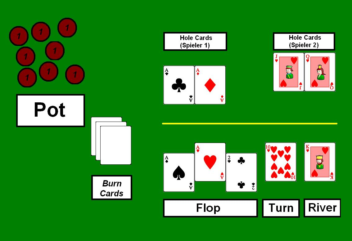 A Show Down on Texas Hold'em